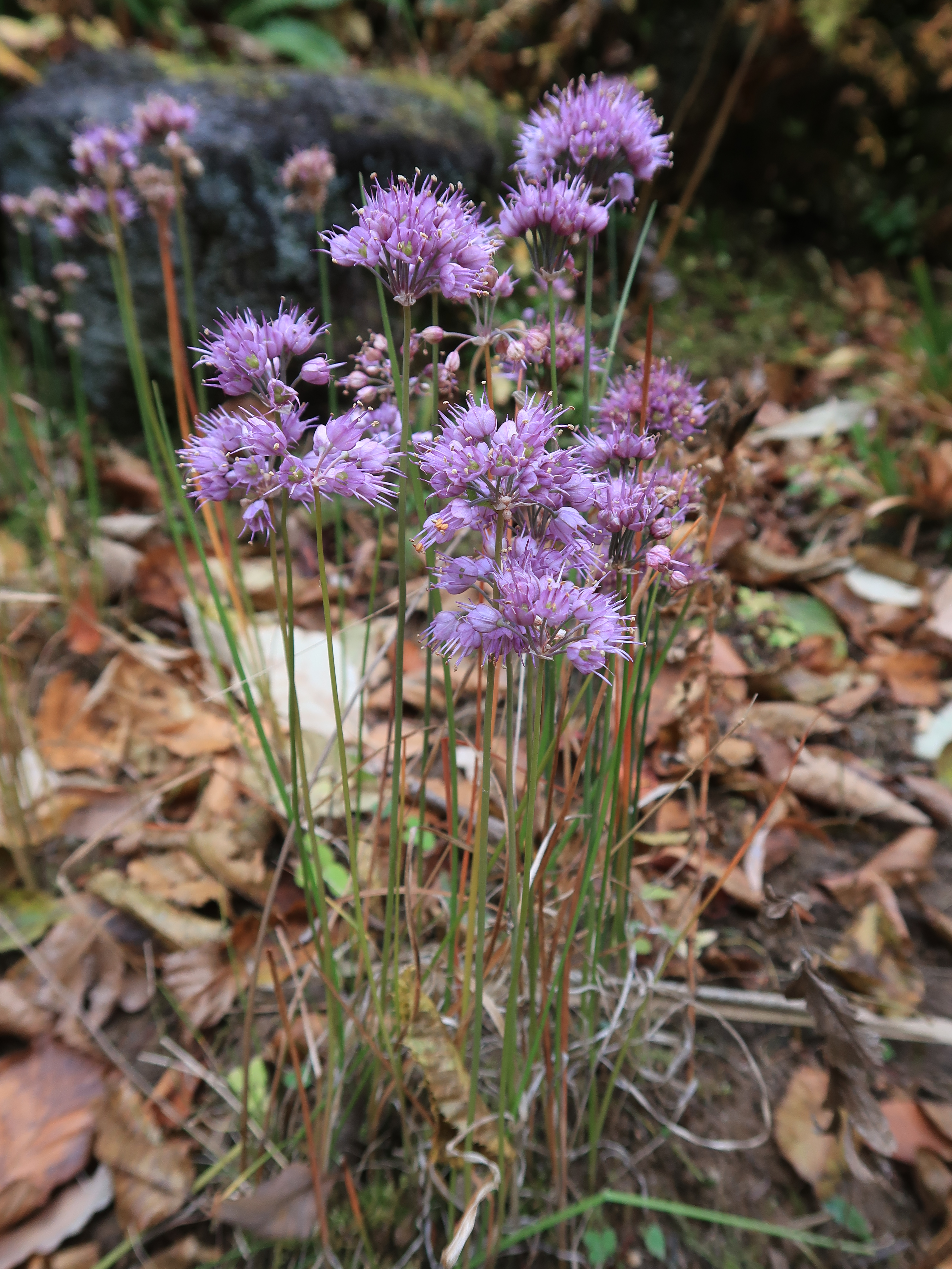 Allium thunbergii, Botanical Gardens, Tohoku University, Miyagi pref., Japan